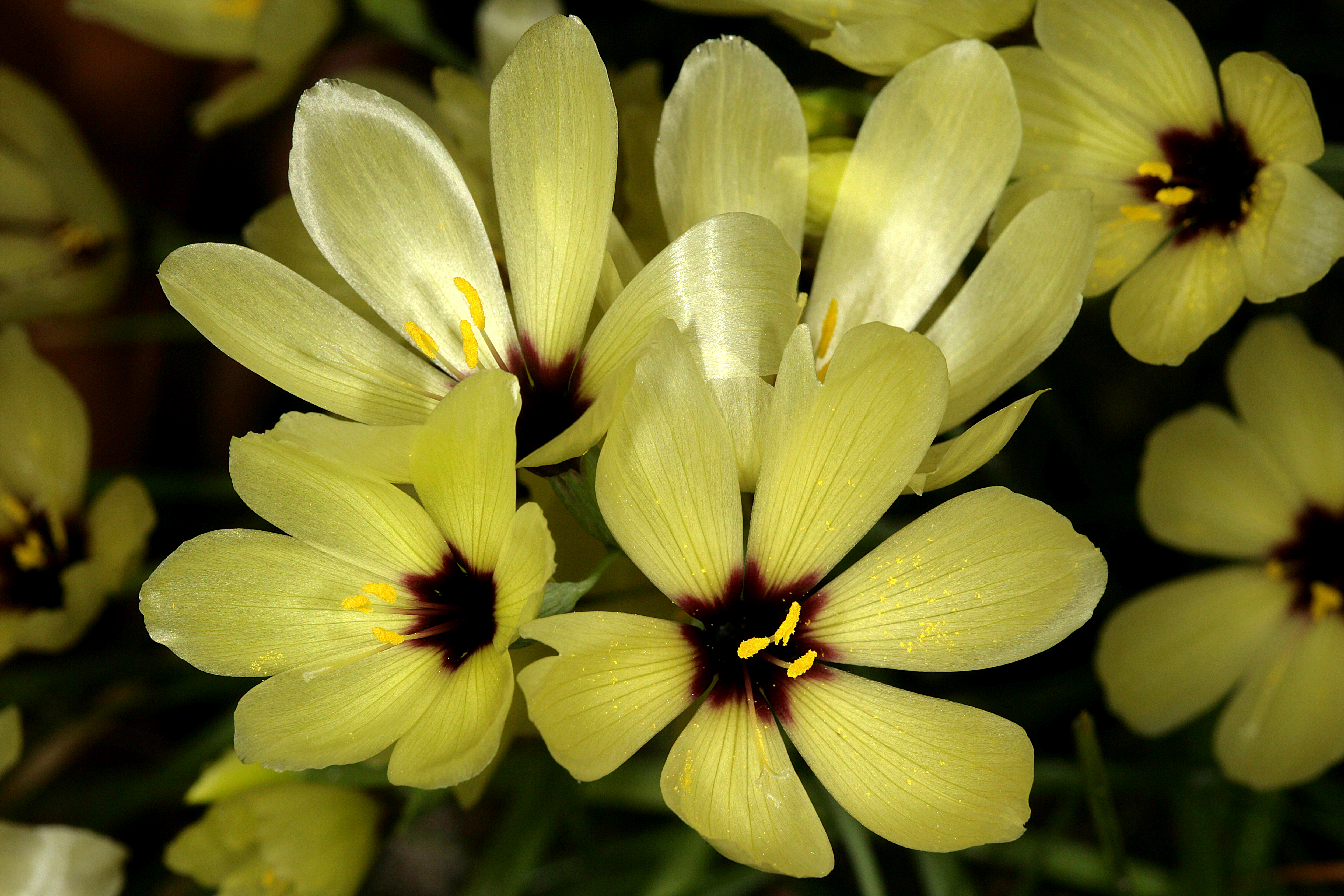 Geissorhiza darlingensis, flowers; Kirstenbosch National Botanical Garden, Cape Town, Western Cape, South Africa